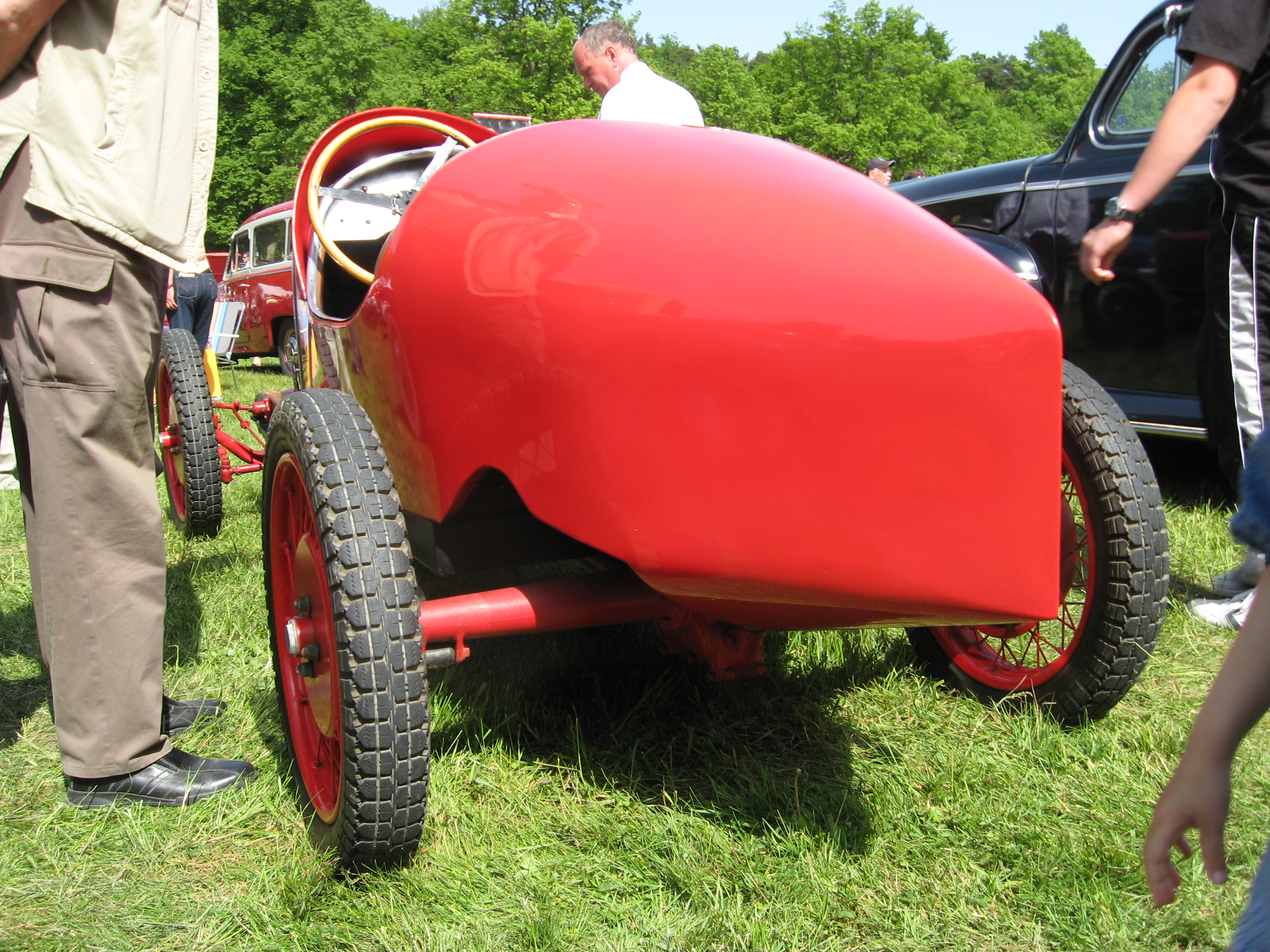 1927 Benova at Prins Bertil Memorial 2008. Chapuis Dornier 1100 cc engine. Perrot-Peganeau front axle. Only five built.